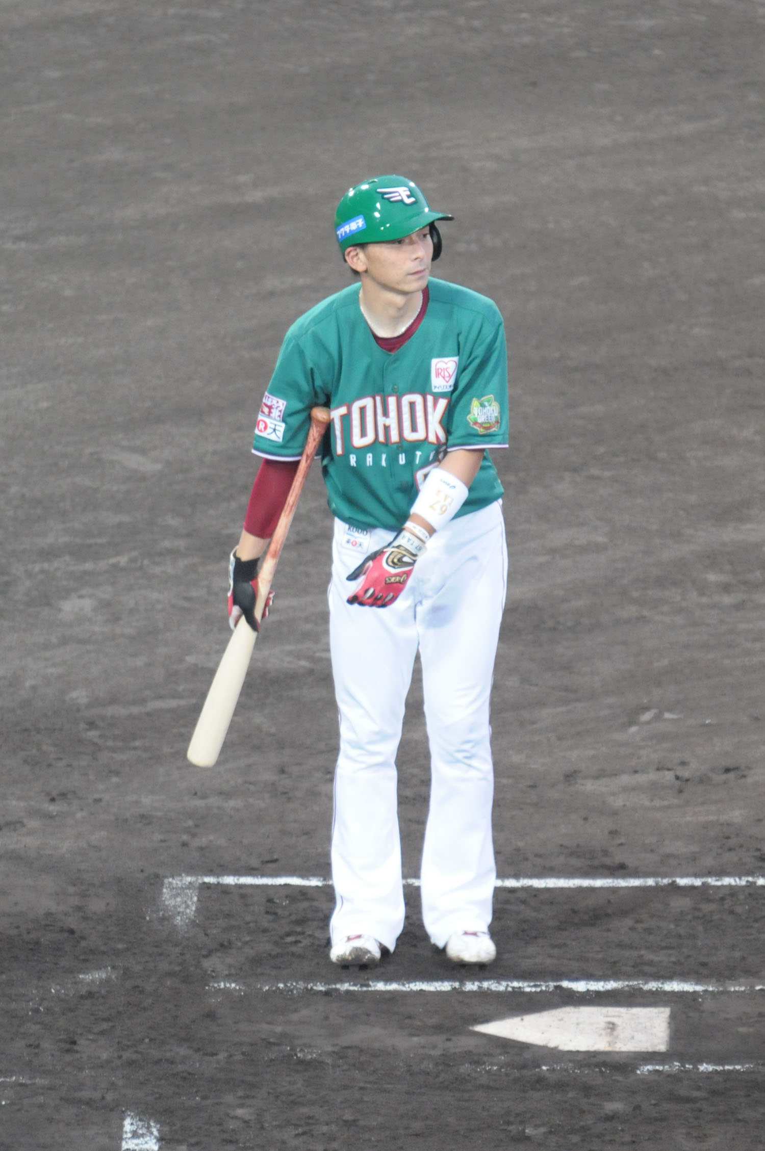 Tatsuro Iwasaki, infielder of the Tohoku Rakuten Golden Eagles, at Akita Prefectural Baseball Stadium.